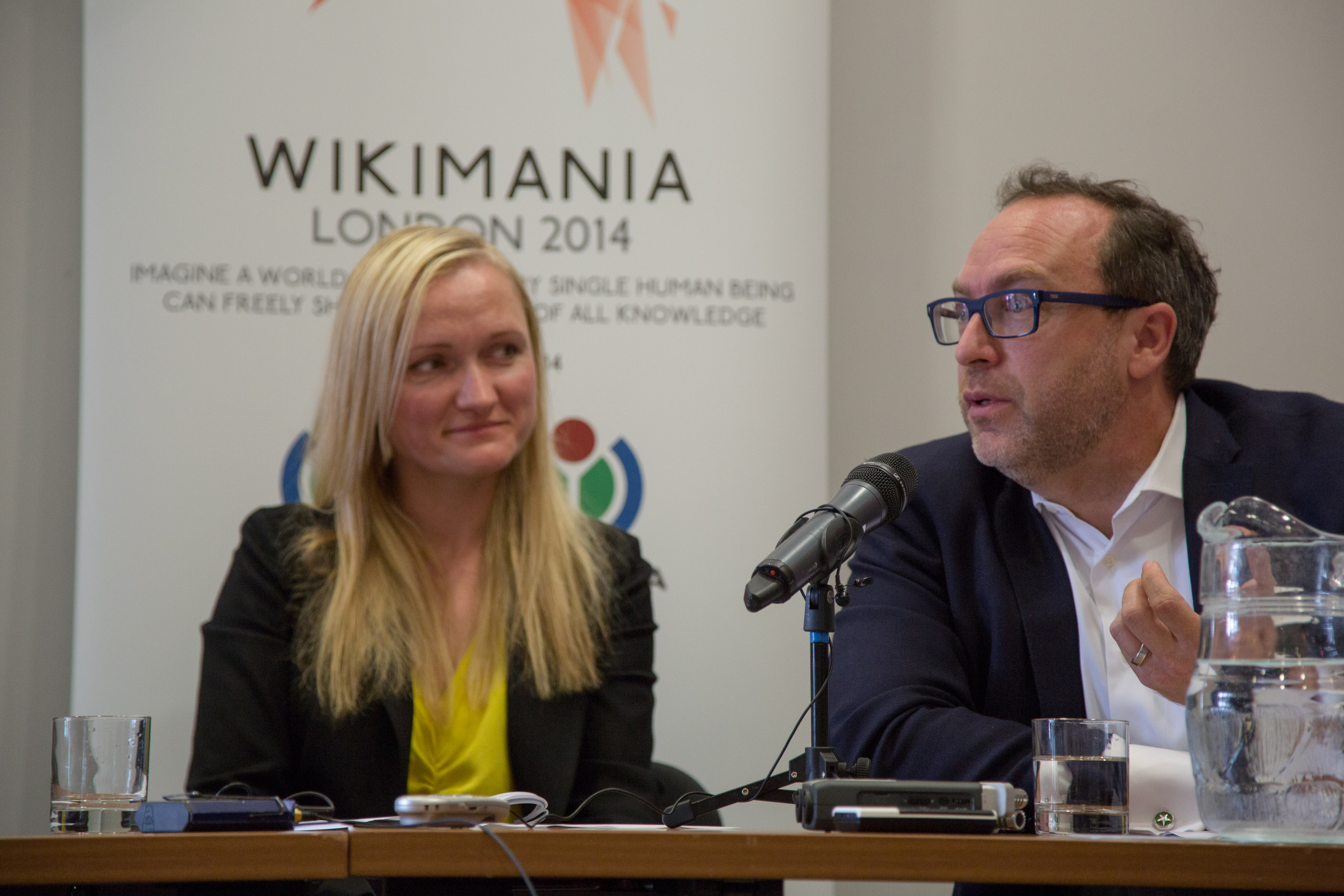 Wikimania 2014 Press Briefing